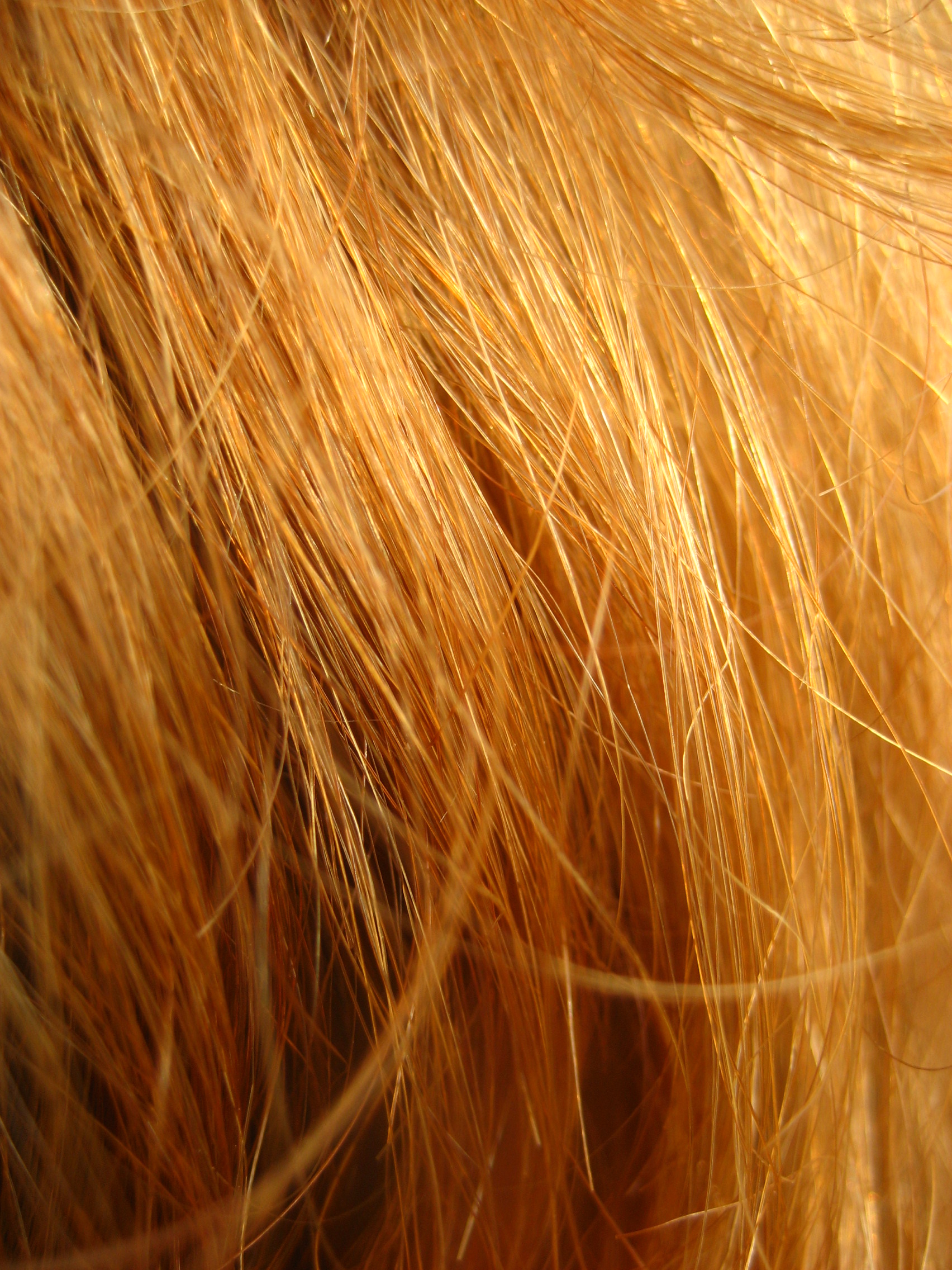 Red hair in close-upRedhead